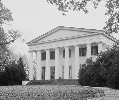 Berry Hill (Halifax County, Virginia) (cropped)